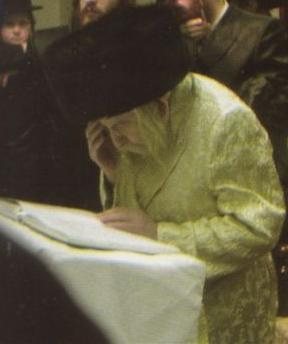 The Tosher Rebbe of Montreal, Canada. Considered to be the last of the great Hasidic luminaries of the so-called "Golden Age" of hasidism in Pre-War Europe